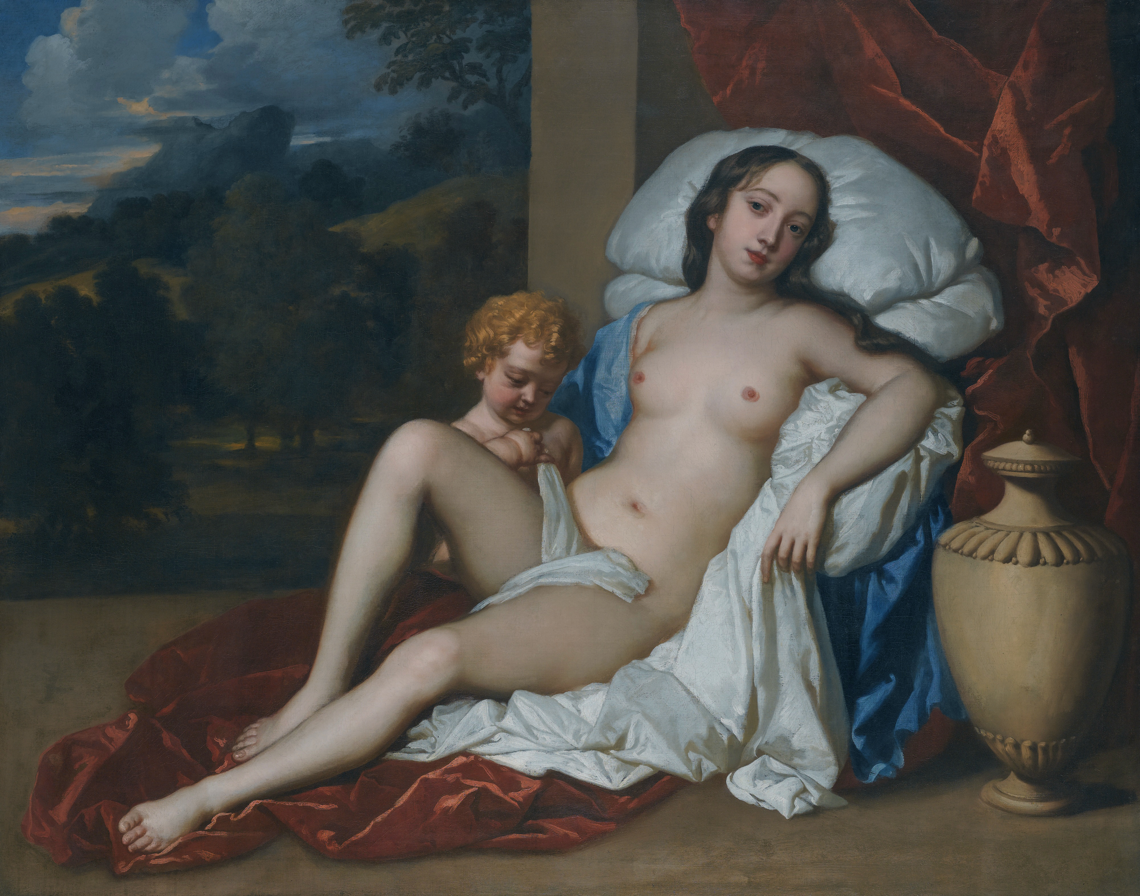 A young woman and child, as Venus and Cupid, almost certainly Nell Gwyn (1650-1687)